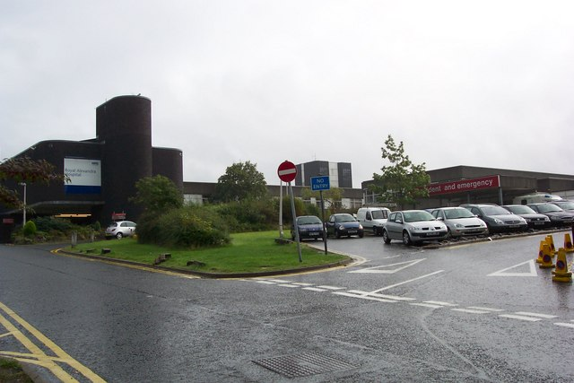 Royal Alexandria Hospital Paisley. Royal Alexandria Hospital Paisley. A busy place on a Saturday night.